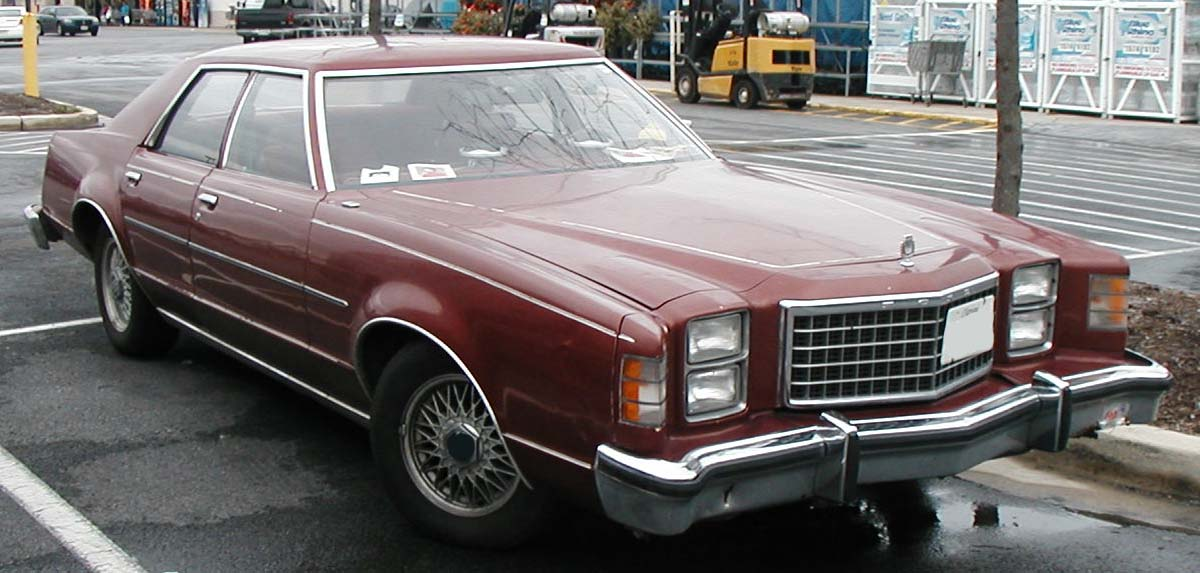 1977-1979 Ford LTD II photographed in USA.